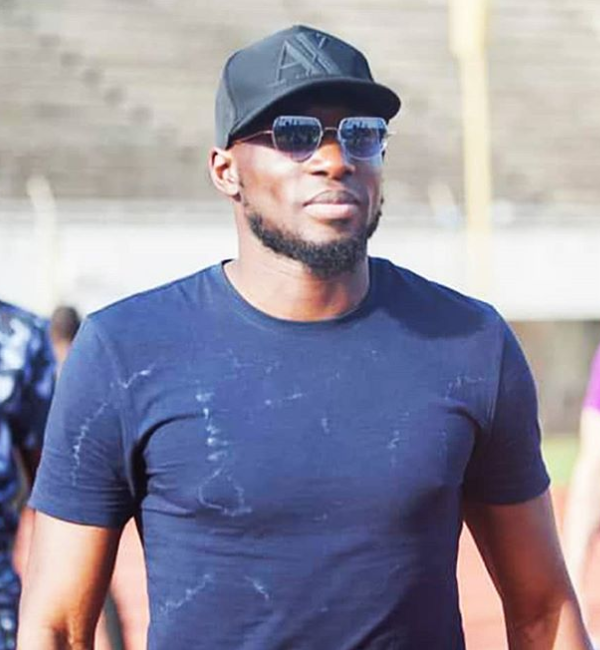 Mickael Pote (2019)